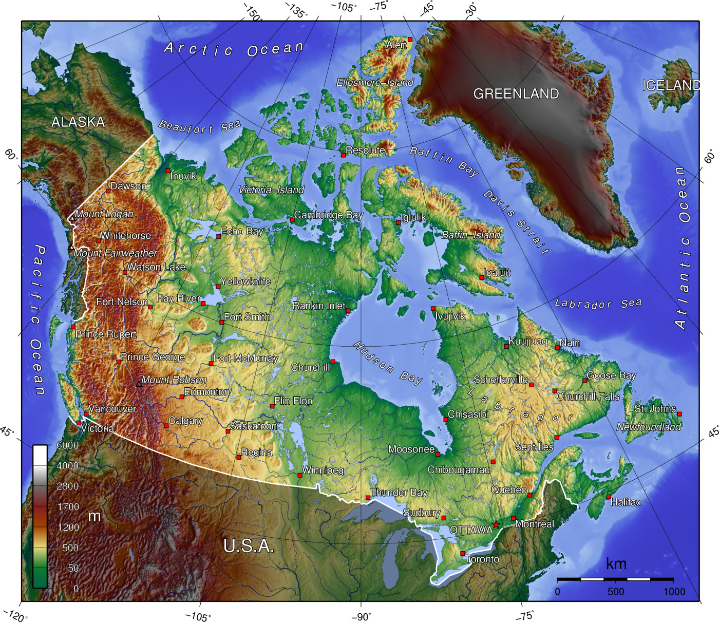 A topographic map of Canada, in polar projection (for 90° W), showing elevations shaded from green to brown (higher), with elevation-legend overlaid at lower left. Nearby countries are shaded darker (compare elevation shades at Canadian borders). The image is centered over longitude 90° W, with longitude meridians at 15-degree intervals apart, and latitude parallels also 15-degree. The boundaries are roughly from longitude 10°W to 177°W, and latitude 40°N to 84°N (above northern-most Alert, Canada 82°28′N, 62°30′W).